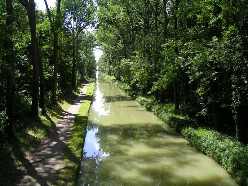 Canal de l'Ourcq Photo personnelle (own work) de Marianna